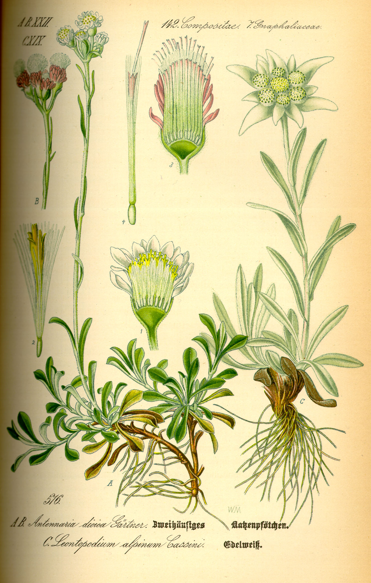 Name:Leontopodium alpinum Family:Asteraceae